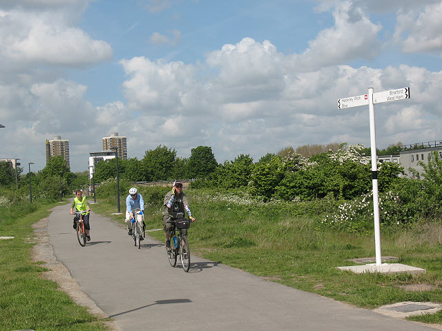 The Greenway at Stratford Marsh The top of the Greenway (above the northern outfall sewer) has long been a pedestrian and cycle route. It will be the main pedestrian access to the Olympic site from the tube and rail stations at West Ham in 2012.